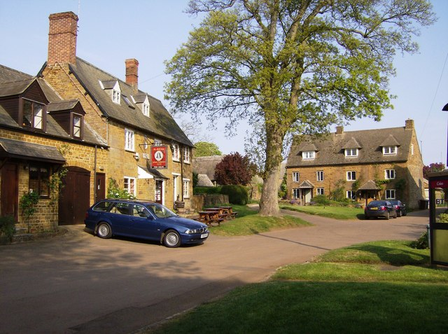 Part of the Green, Shenington, Oxfordshire, seen from the southeast. On the left is the Bell Inn. On the right is Bell View, which is a 17th- and 18th-century cottage and was the village shop.